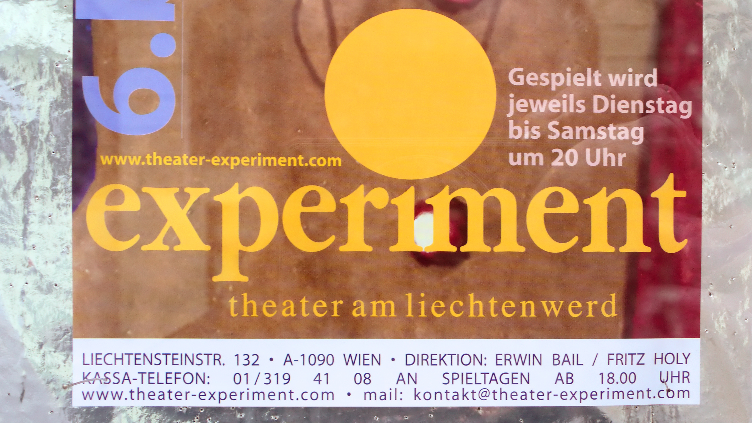 Theatre Experiment am Liechtenwerd in Vienna Alsergrund